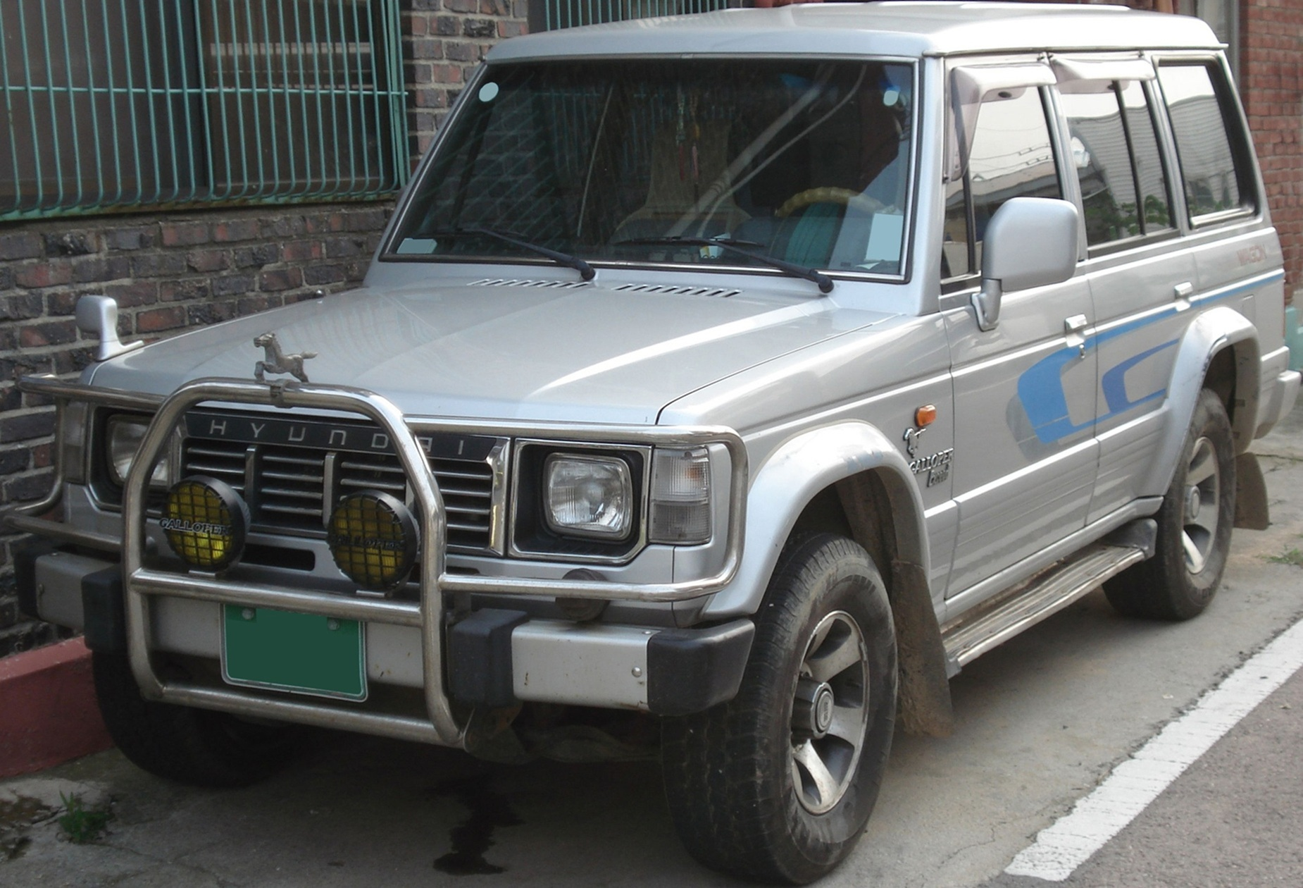 Hyundai Galloper